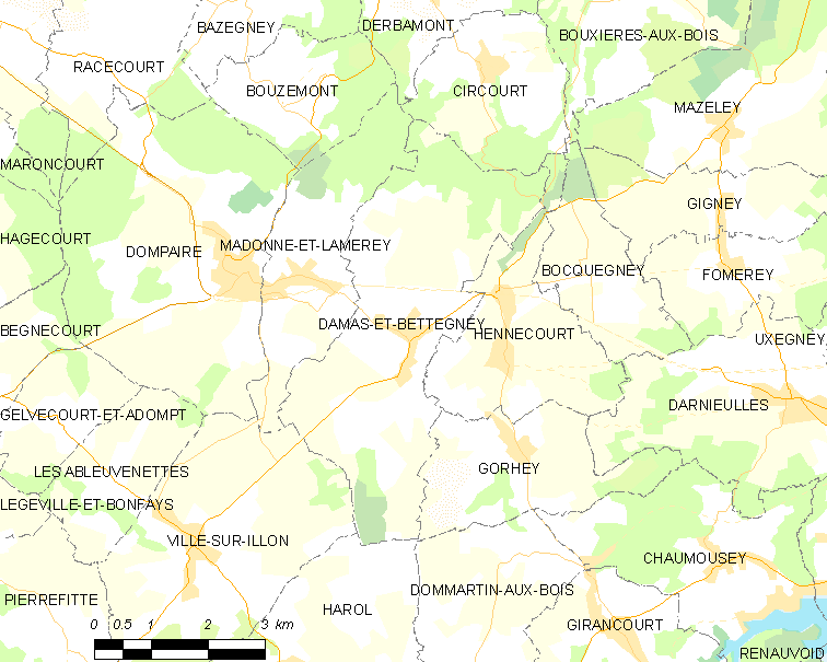 Map of French municipality Damas-et-Bettegney